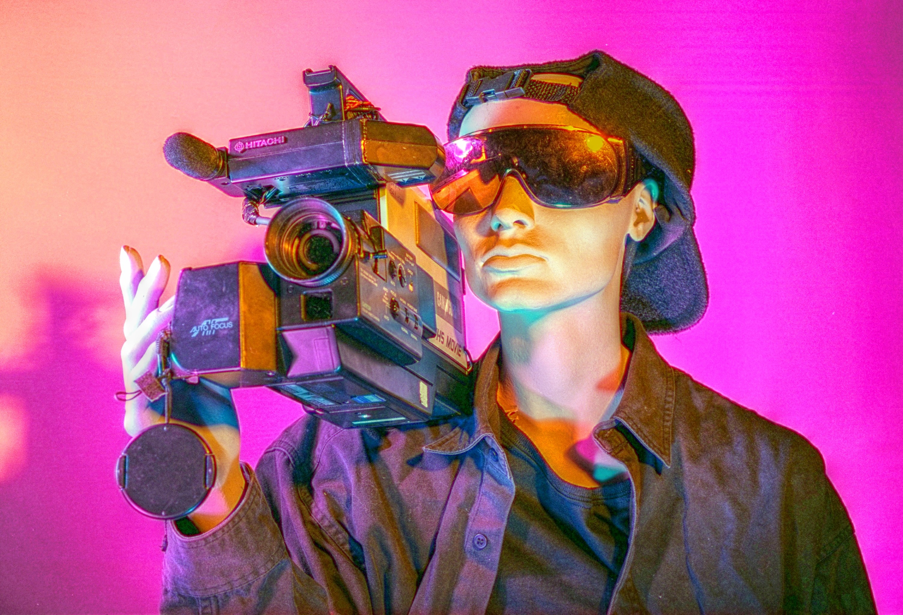 One of the pieces in Steve Mann's exhibit at LVAC (List Visual Art Center), 1997 October 9th: "ShootingBack: Through the viewfinder metadocumentary": A documentary about making a documentary about video surveillance.